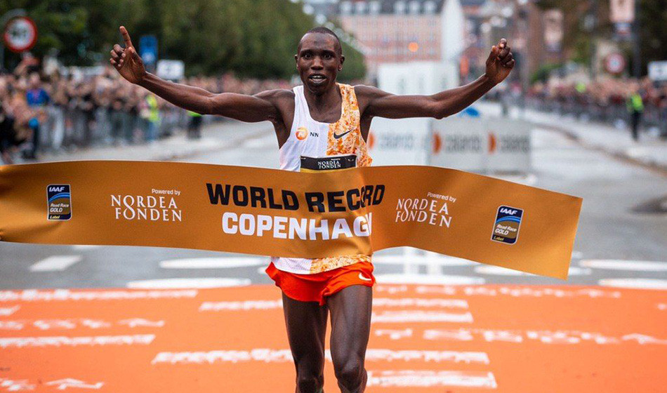 Det her er verdens rekord holdern på halv marathon Geffrey Kamworor